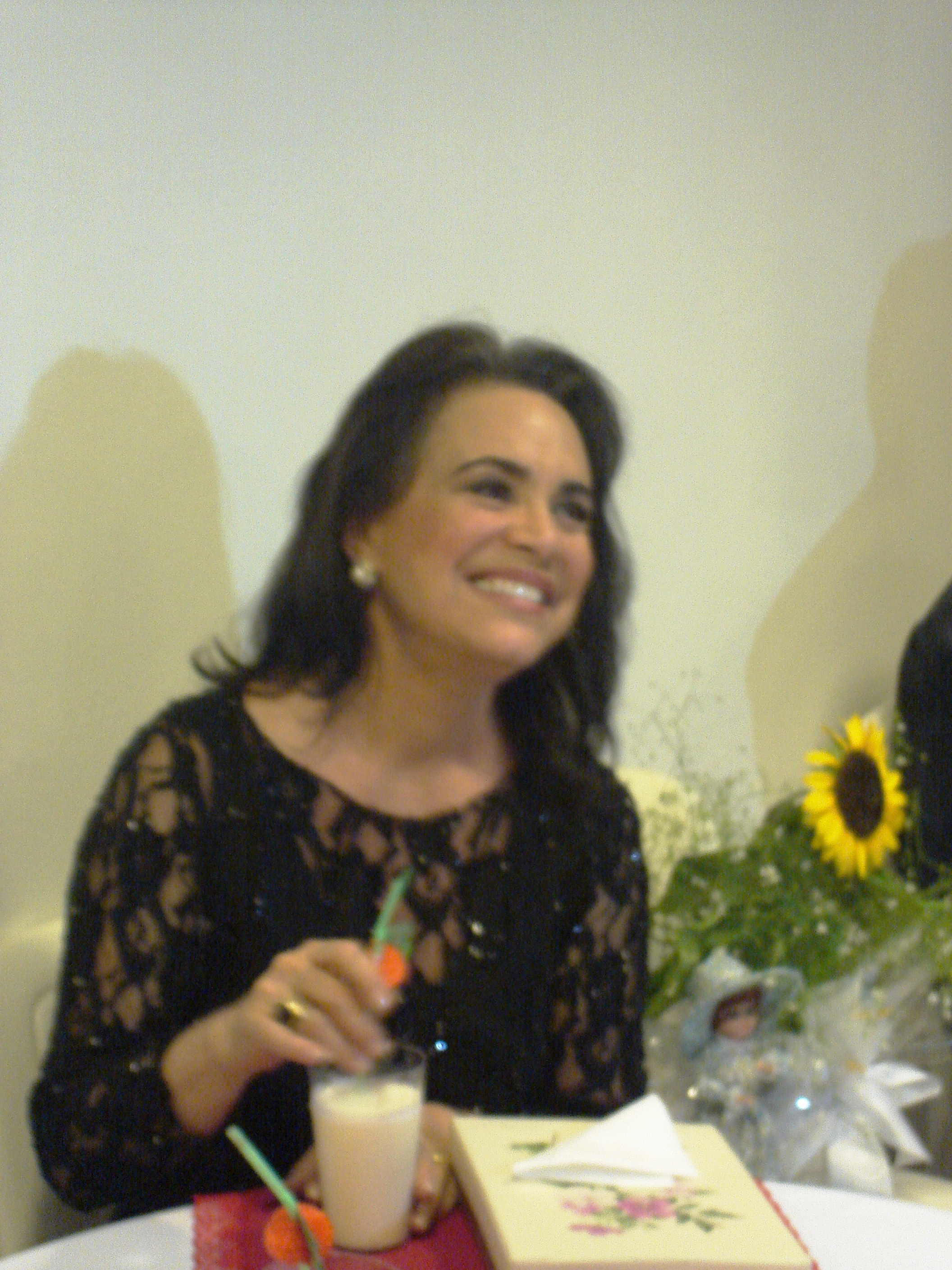 Picture from the Brazilian actress Regina Duarte, by her fan Leivison.